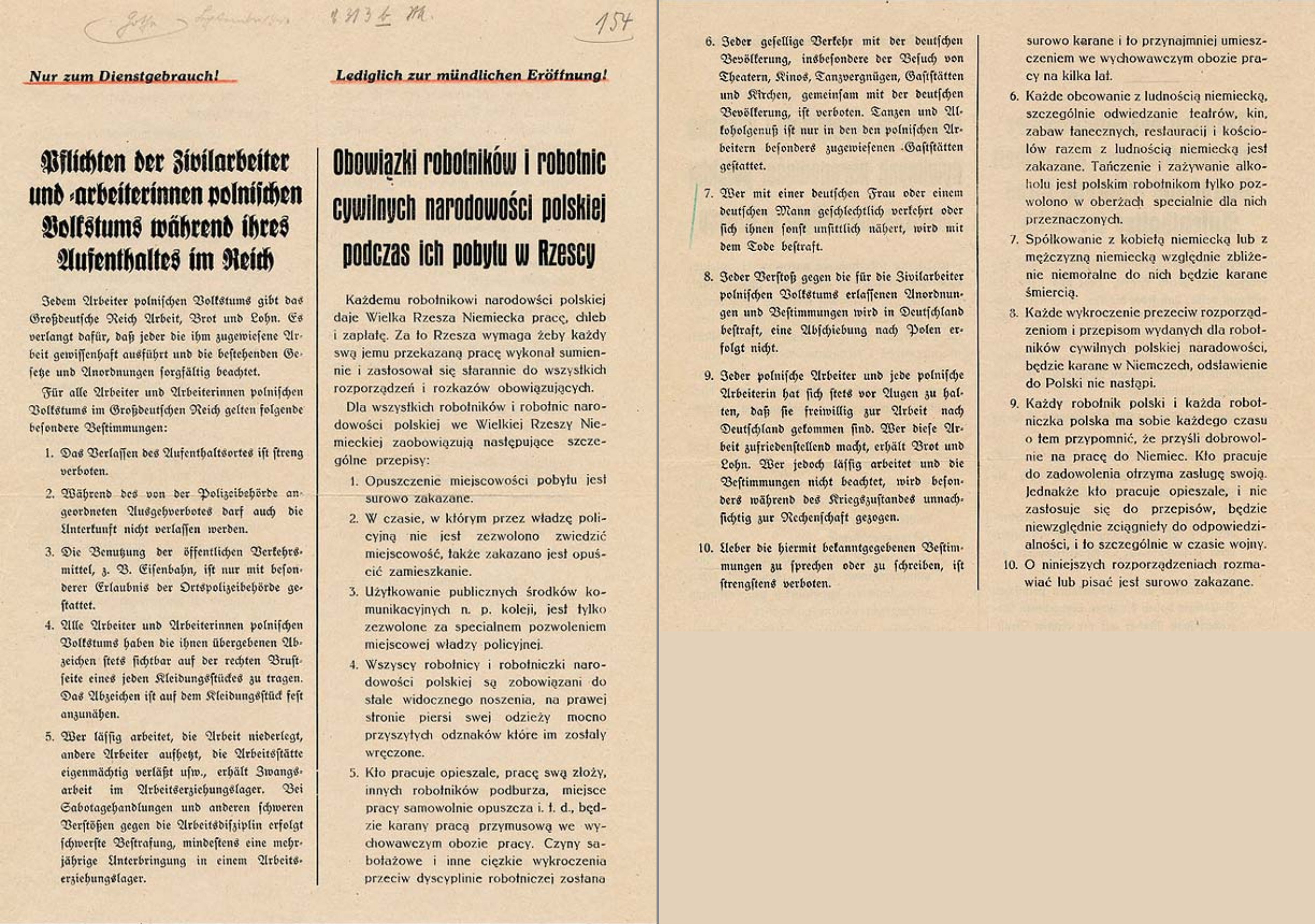 Facsimile of the 1940 Polish decree, complete transcription under Polenerlass